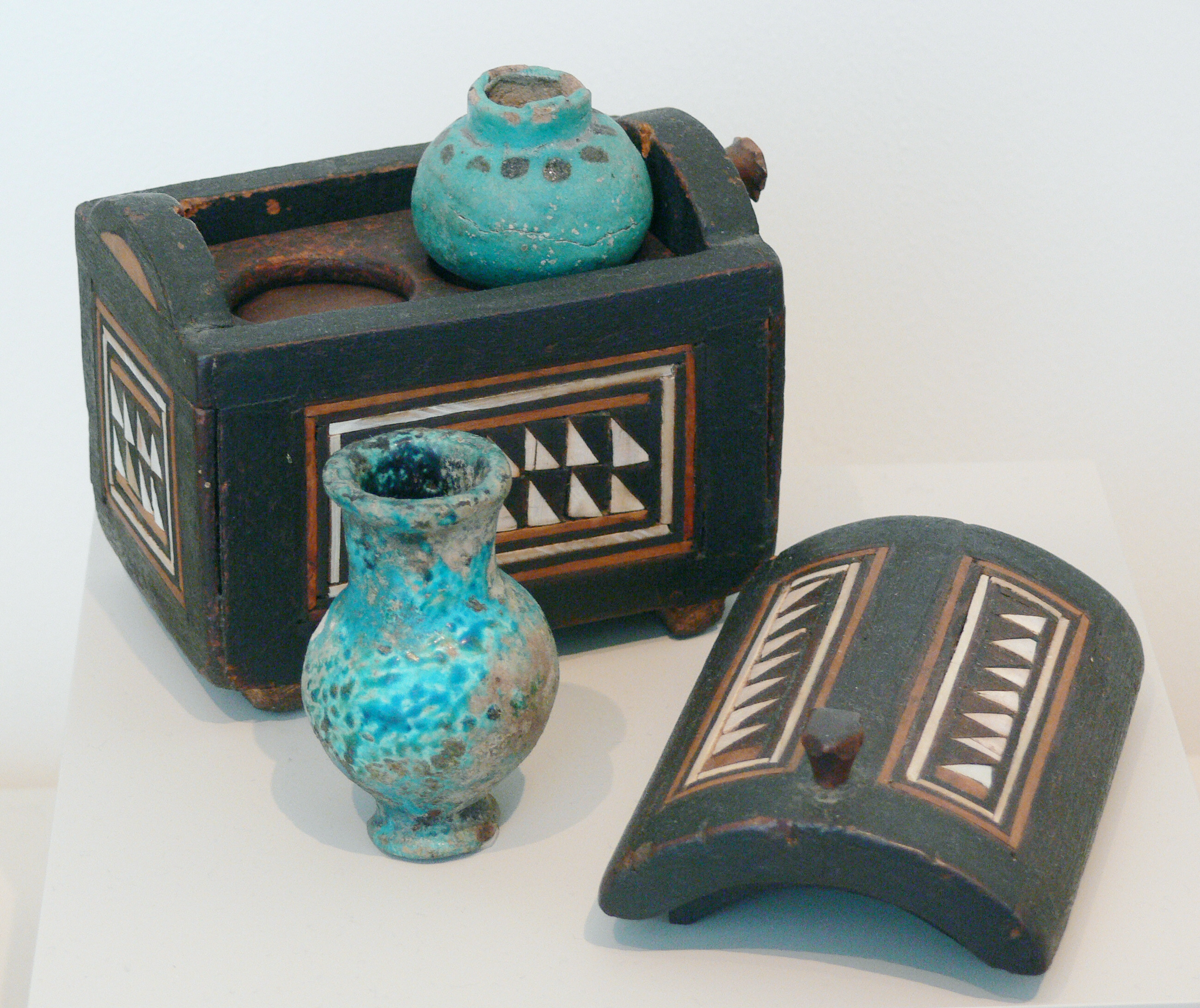 Small cosmetics case with two ointment vessels, wood and fayence, New Kingdom of Egypt, 18th dynasty, c. 1400 BC. Egyptian Museum Berlin, Inv. 11381/1-3.